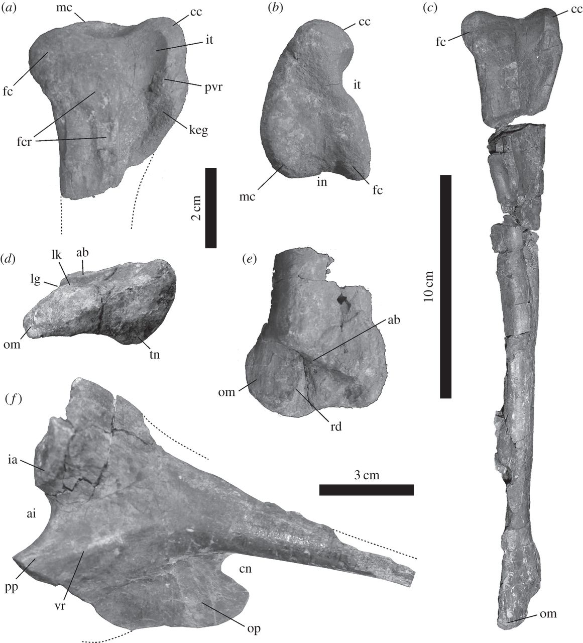 Tachiraptor admirabilis gen et sp. nov. Holotype right tibia (IVIC-P-2867) in (a) lateral (proximal portion), (b) proximal, (c) lateral, (d) distal and (e) cranial (distal portion) views. Referred left ischium (IVIC-P-2868) in (f) lateral view. Abbreviations: ab, astragalar buttress; cc, cnemial crest; ai, cranial emargination; cn, caudal notch; fc, fibular condyle; fcr, fibular crest; ia, iliac articulation; in, intercondylar notch; it, incisura tibialis; keg, ‘knee extensor groove’; lg, longitudinal groove; lk, lateral kink; mc, medial condyle; om, outer malleolus; op, obturator plate; pp, pubic peduncle; pvr, ‘postero-ventral ridge’; rd, ridge; tn, tibial notch; vr, ventral ridge.